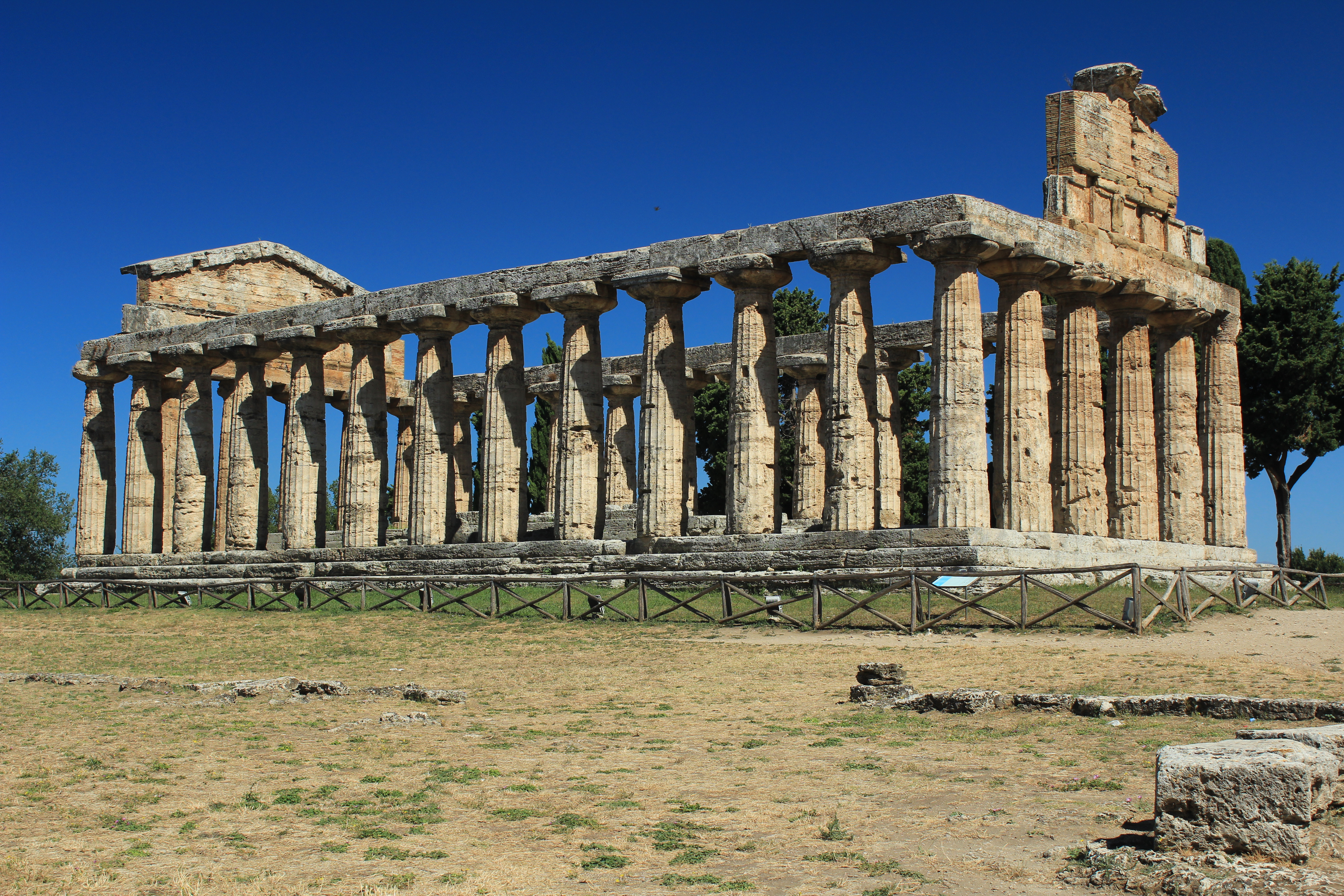 This is a photo of a monument which is part of cultural heritage of Italy.